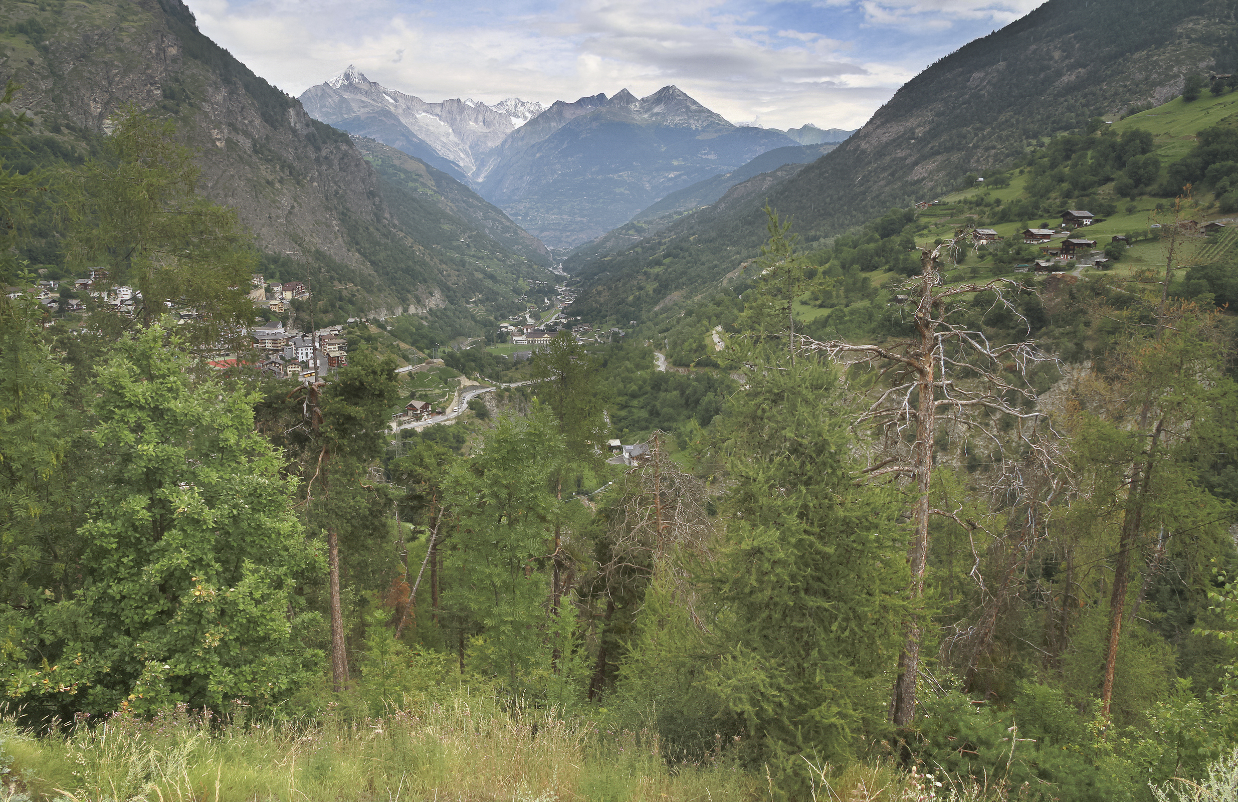 A view to Vispertal towards north in 2010 July.